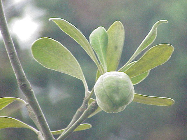 Species: Pittosporum crassifolium Family: Pittosporaceae Image No. 2